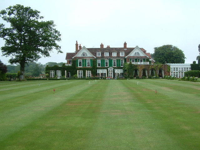 Chewton Glen Hotel, Hampshire. This hotel, set in 35 acres, was voted the 'Best Small Hotel, under 100 Rooms, in the World'.